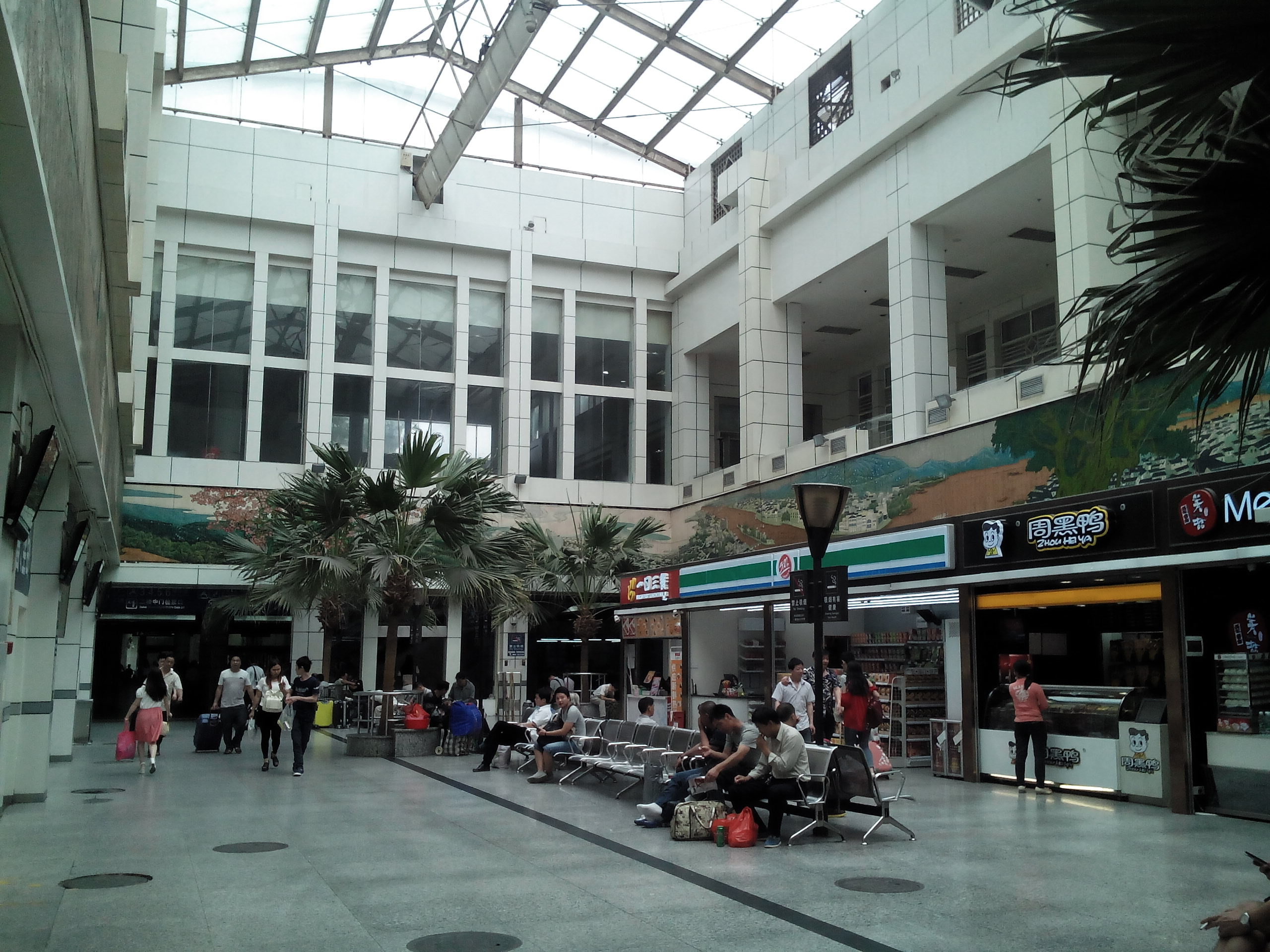 201504 Eastern Garden at Guangzhou Station, always used as waiting area